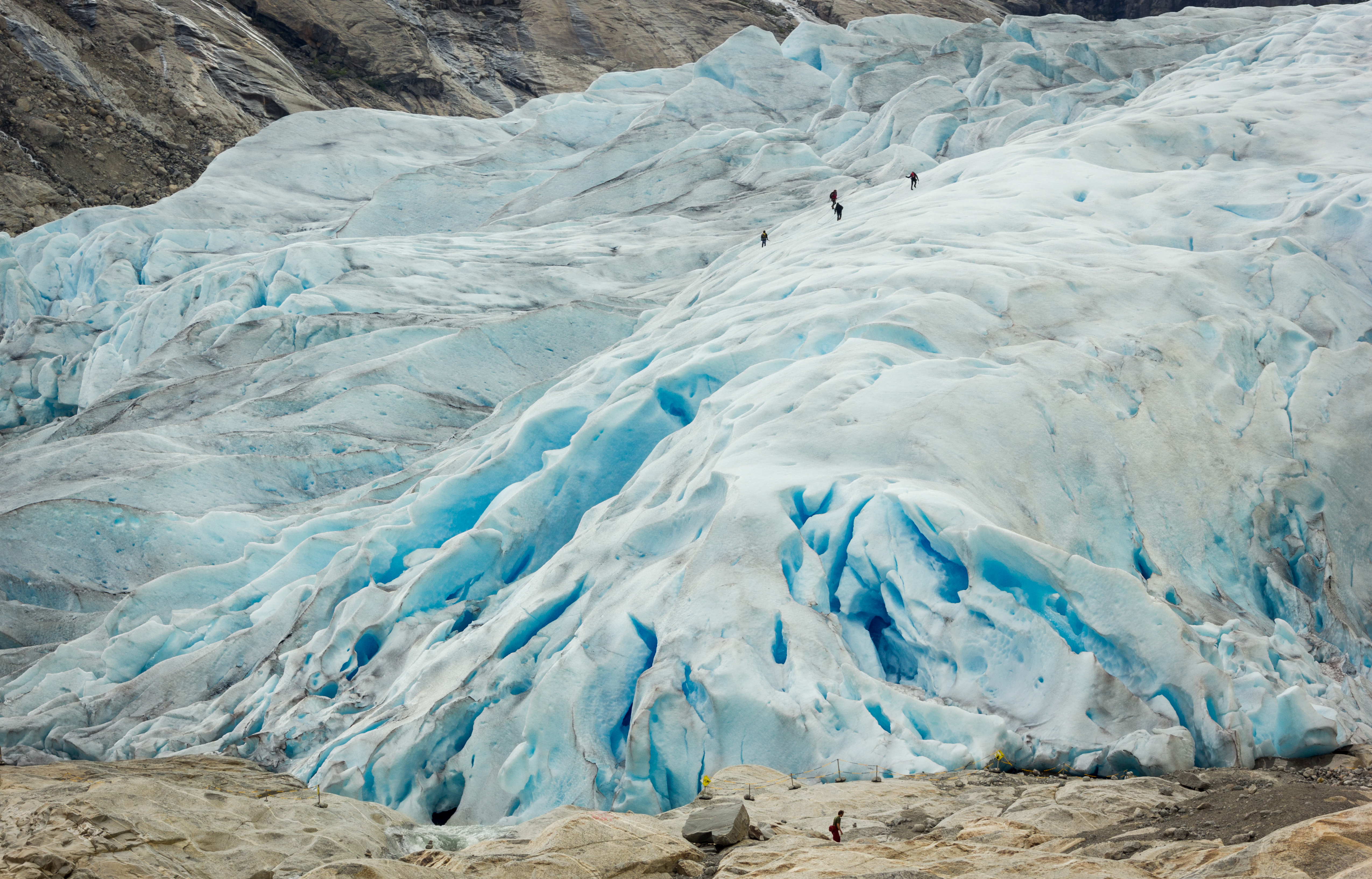 Nigardsbreen is one of the Glaciers running down from the vast Jostedalsbreen glacier